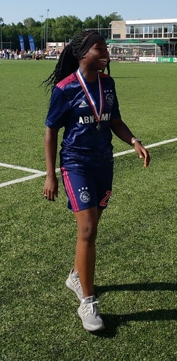 Lindsey Keizerweerd, AFC Ajax Vrouwen location: AFC'65-Hengelo, NL